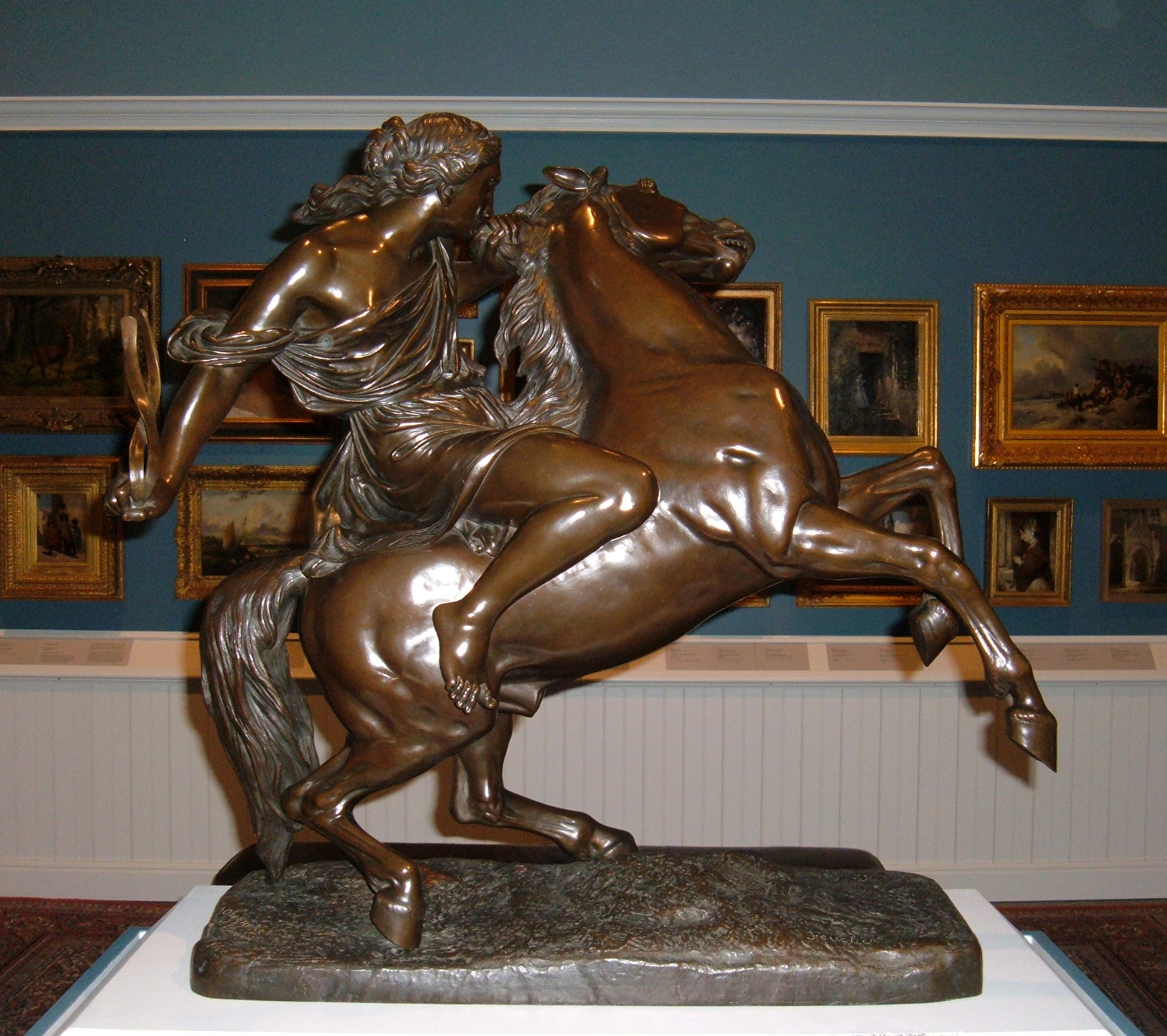 "Amazon Breaking a Savage Horse", 1843, bronze, by Jean-Jacques Feuchère on display at the Iris & B. Gerald Cantor Center for Visual Arts on the Stanford University campus in Stanford, California.